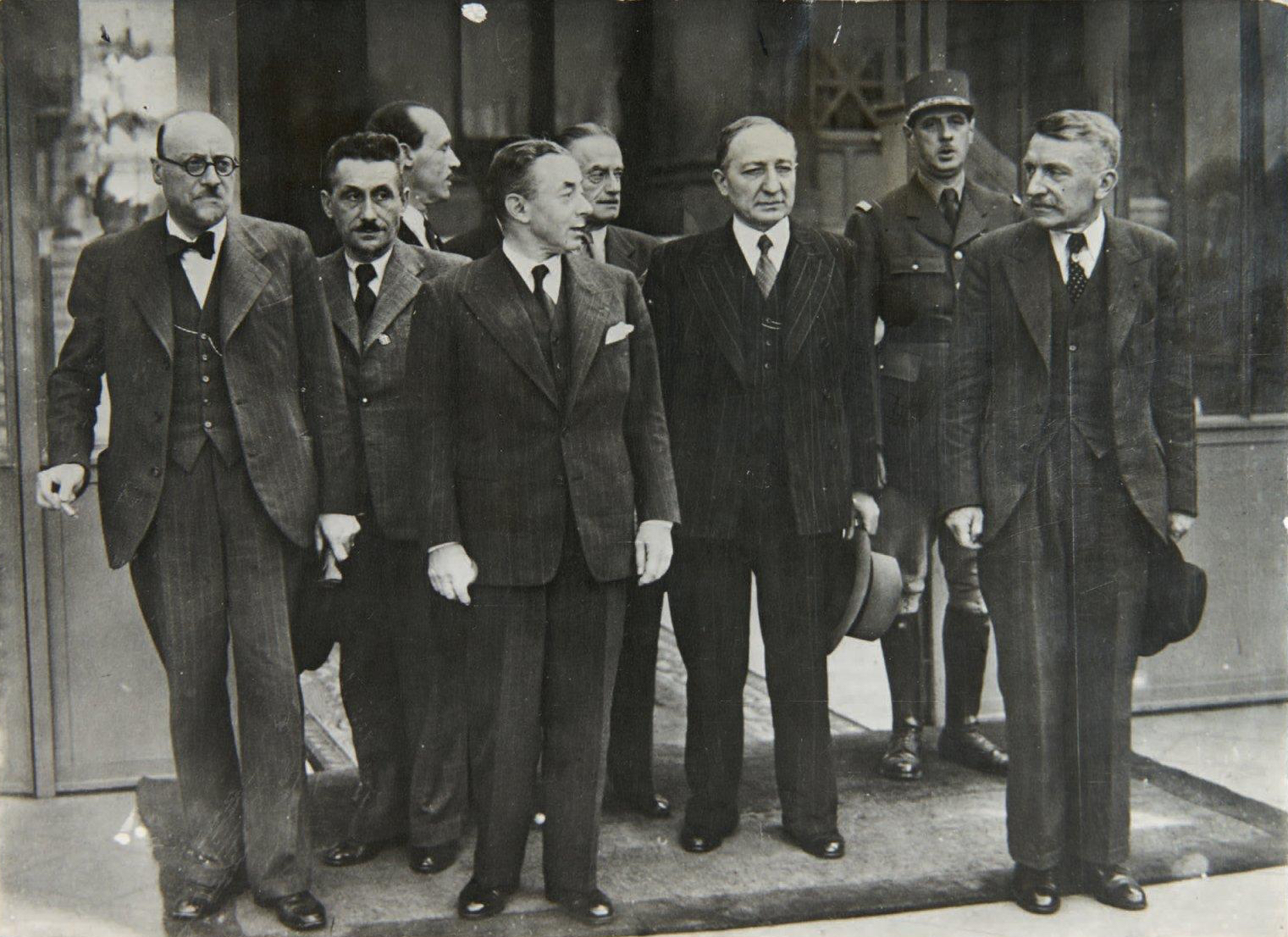 Portrait officiel du gouvernement de Paul Reynaud : Paul Reynaud au premier plan. En arrière-plan, Charles de Gaulle (sous-secrétaire d'État à la Défense nationale et à la Guerre), Frossard (Transmissions), Albert Chichery (Commerce), Jean Prouvost (Information), Bouthillier (Finances), André Février (Travaux publics), Yvon Delbos (Éducation) et Georges Perrot (Famille) (cachets des archives du Parisien libéré et du New York Times)